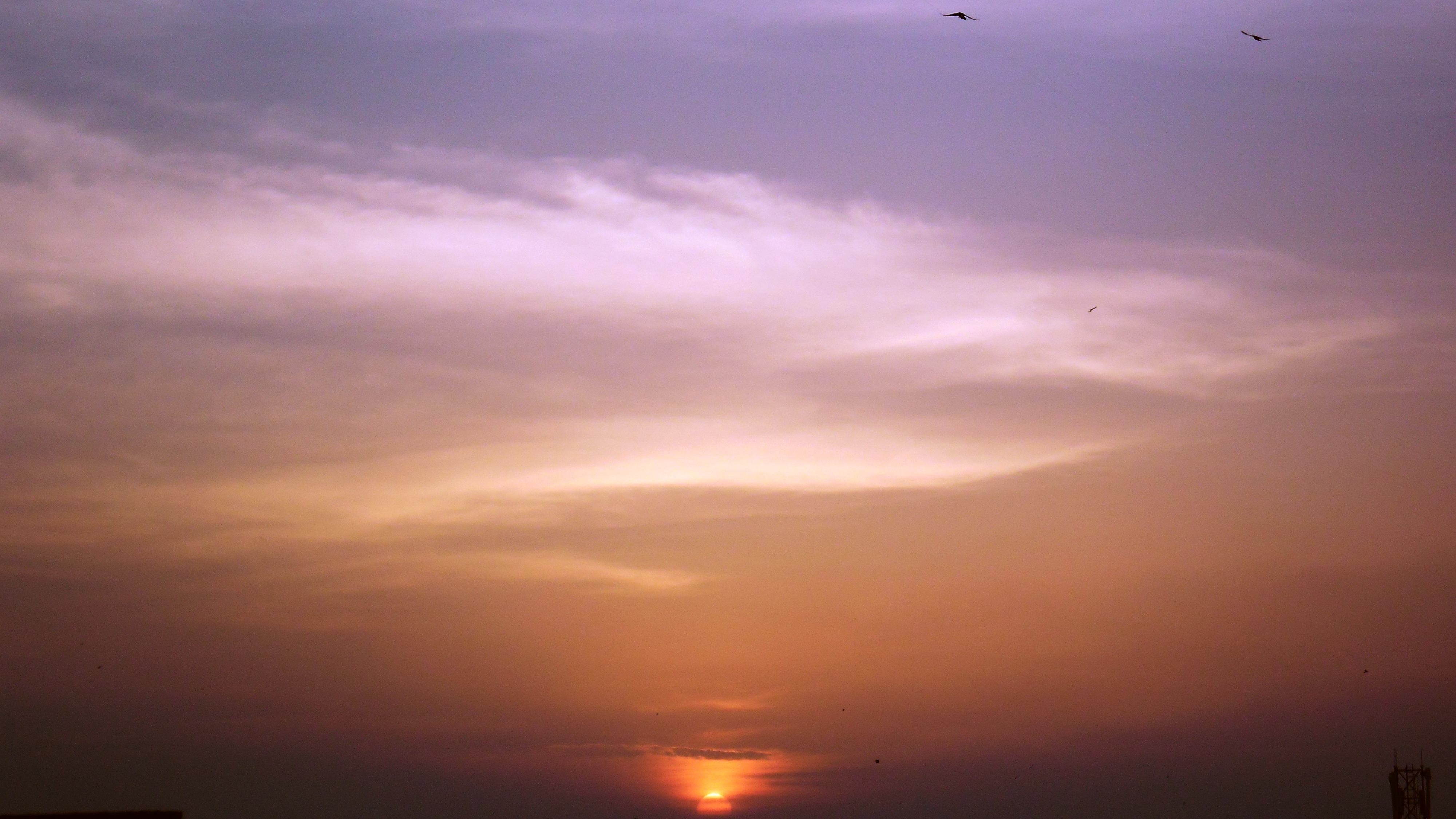 Beautiful Sunset Clouds